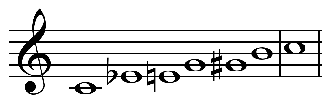 Augmented scale on C. Created by User:Hyacinth using Sibelius. This was intended for use with the other images on Hexatonic scale. Category:Music images